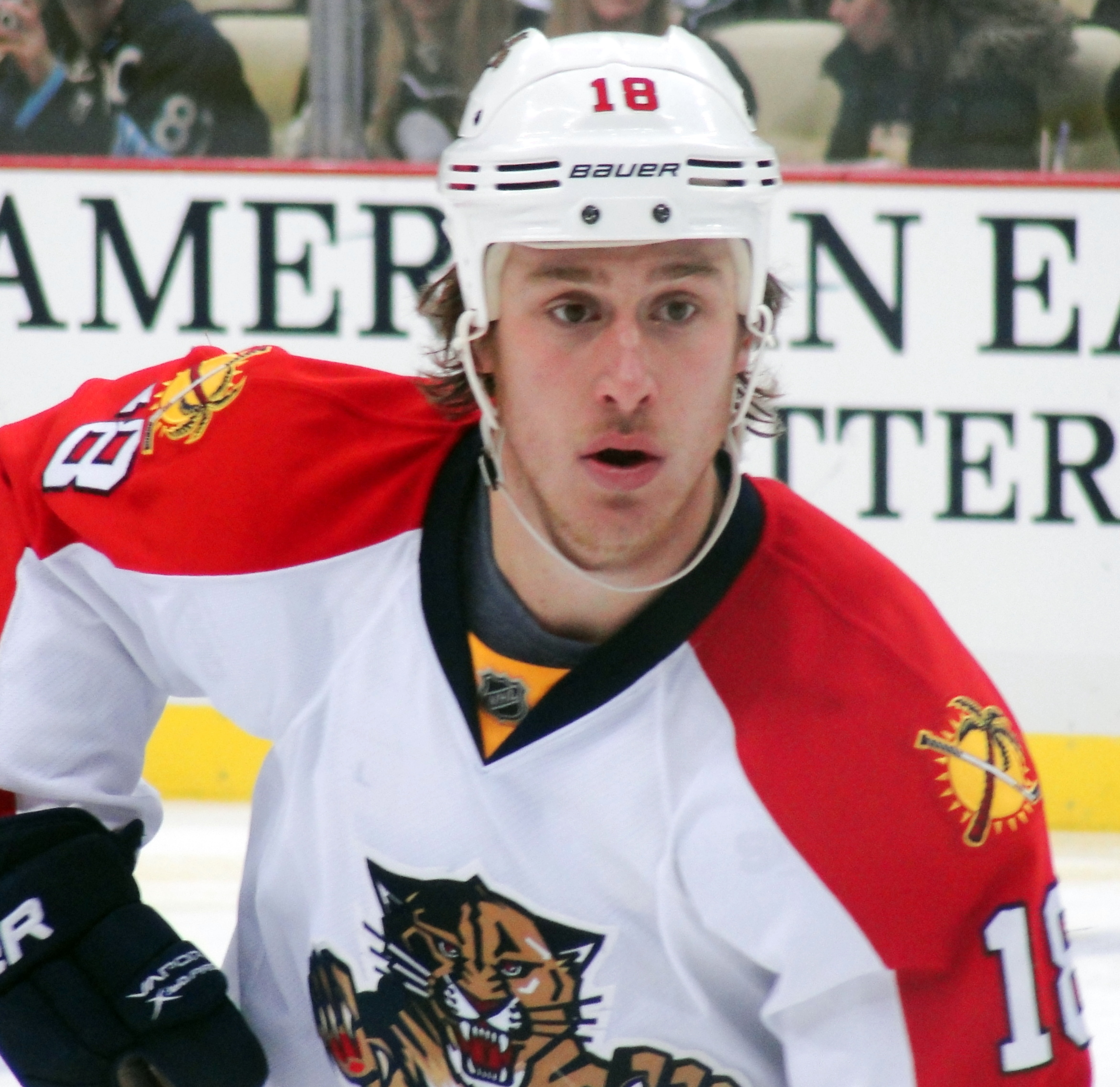 Florida Panthers forward Shawn Matthias skates against the Pittsburgh Penguins, March 9, 2012 at Consol Energy Center in Pittsburgh, PA.